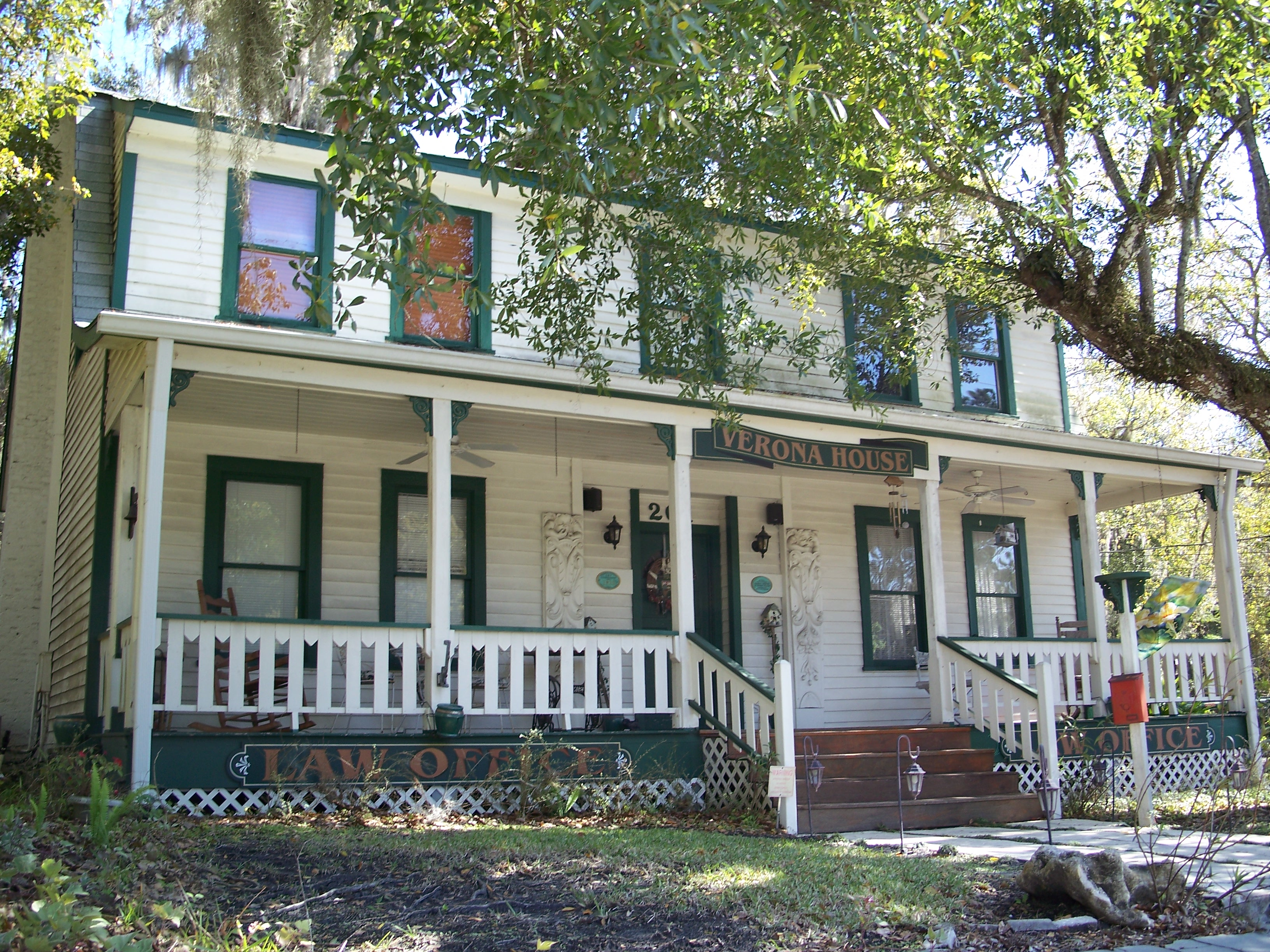 Judge Willis Russell House, in Brooksville, Florida